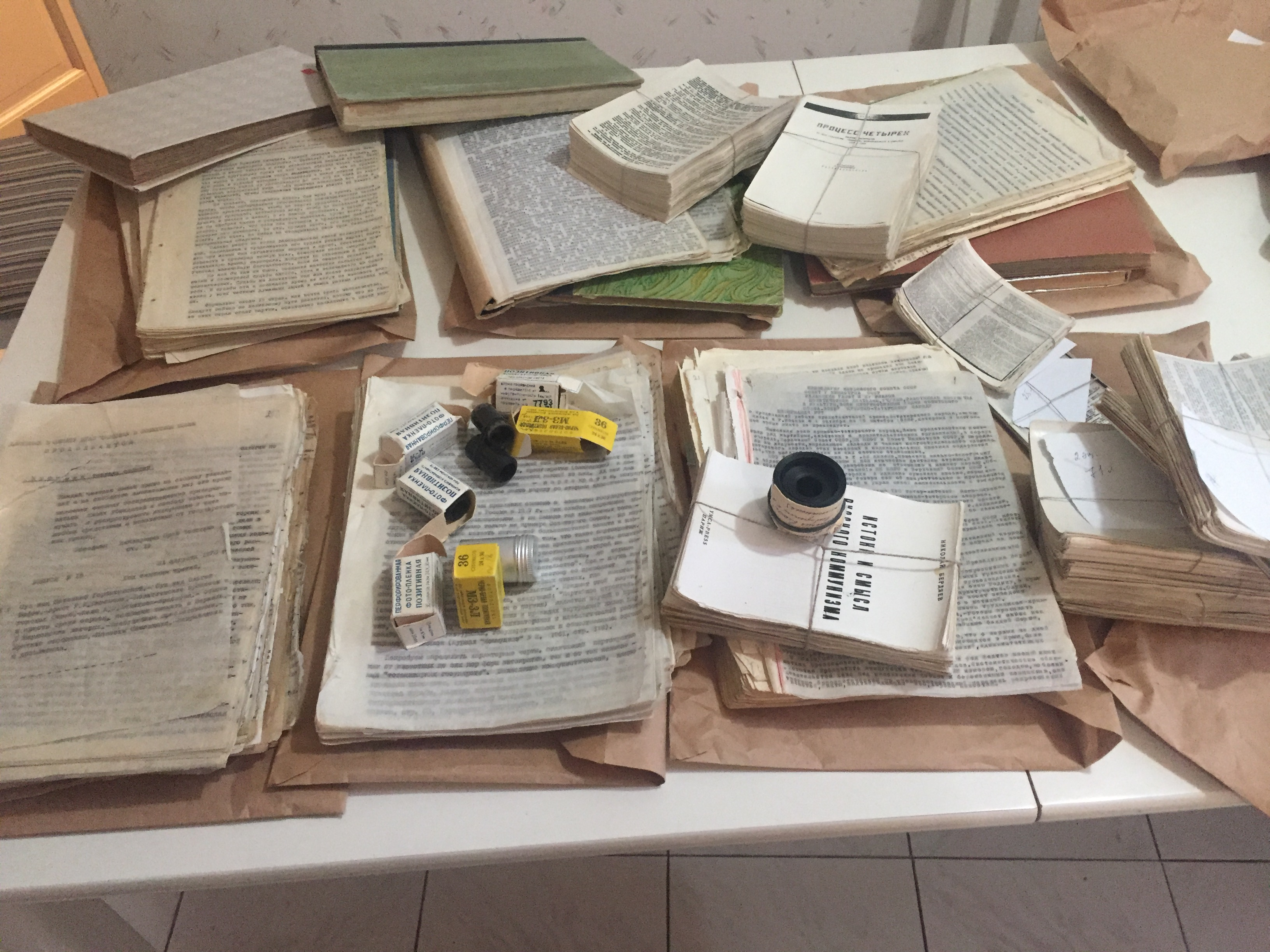 Russian samizdat and photo negatives of unofficial literature in the USSR. Moscow.